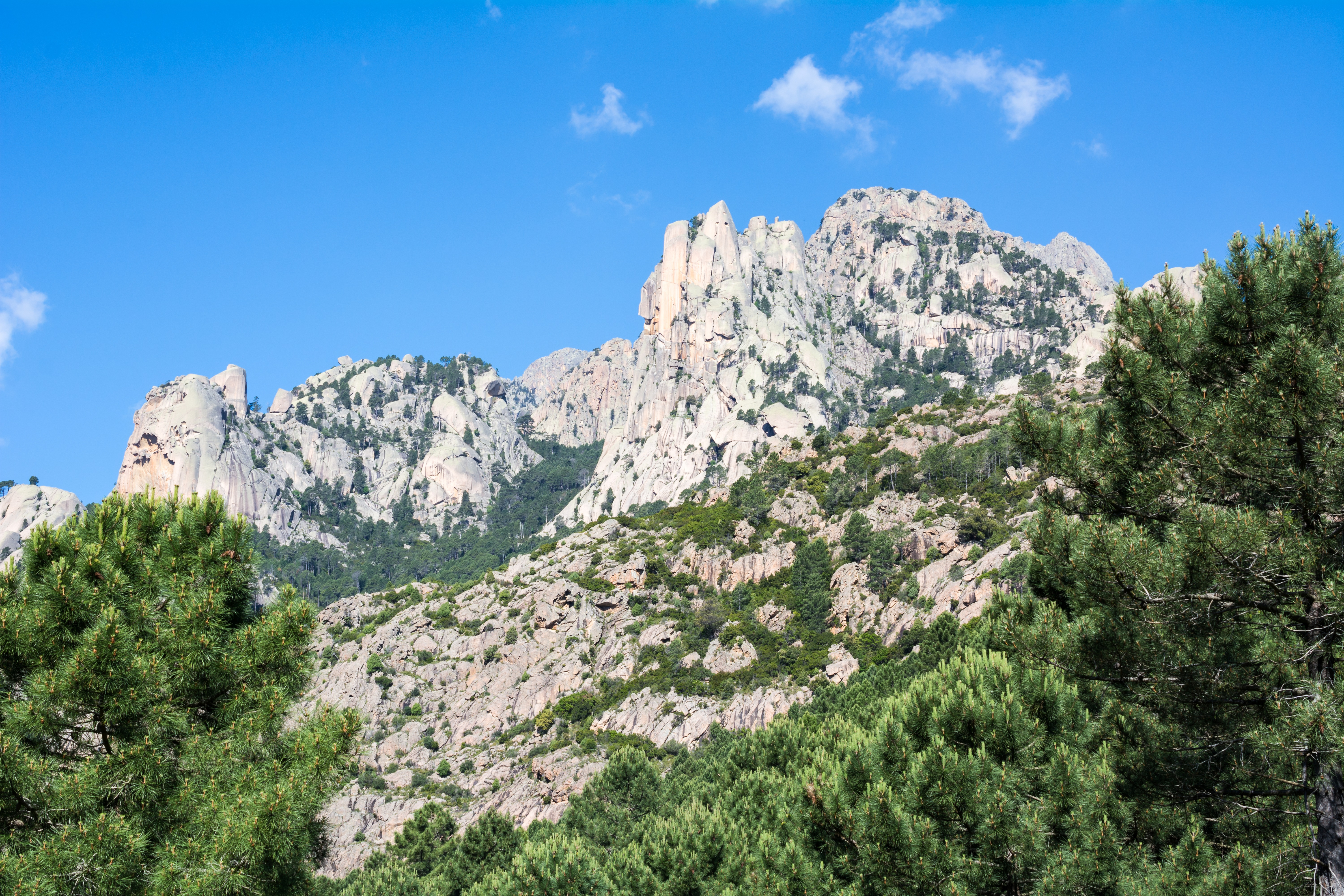 View from Bocca di Laronu to Punta Lunarda over the ravine of the Purcaraccia creek.